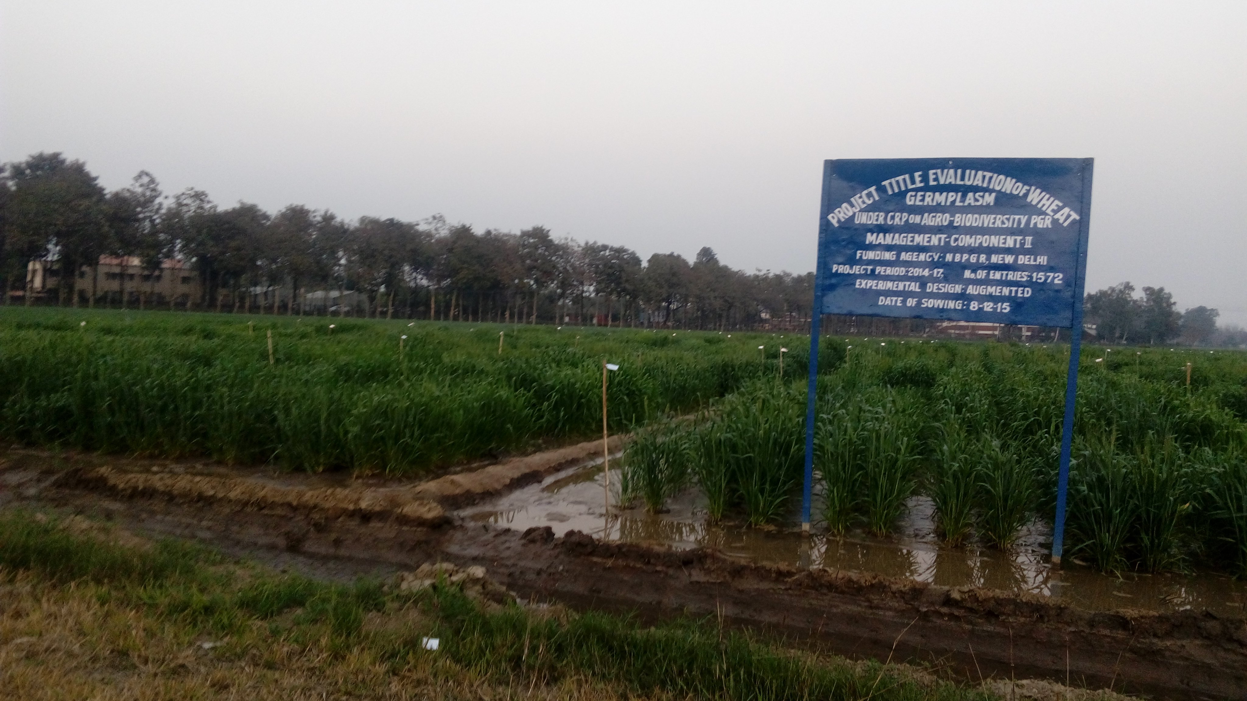 Inside Crops Research Center, Pantnagar 2